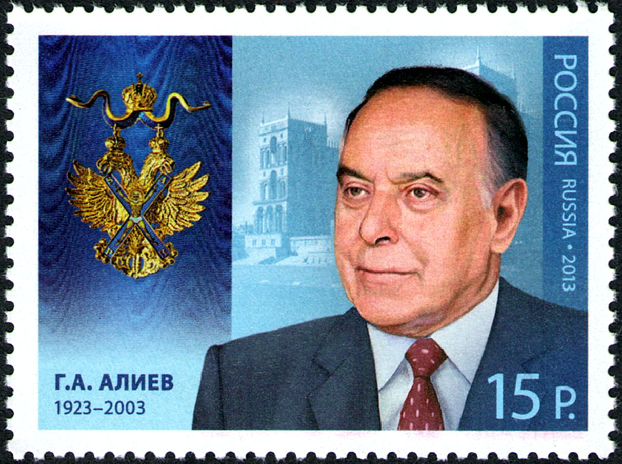 Recipients of the Order of St. Andrew the Apostle the First-Called (the ongoing series, issue III).The joint issue of Azerbaijan and Russia[1].Heydar Aliyev[2] (1923–2003), a Soviet and Azerbaijan statesman, a First Secretary of the of the Central Committee of the Communist Party of the Azerbaijan SSR (1968–1982), a First Deputy Premier of the Soviet Union (1982–1987), a President of Azerbaijan (1993–2003).There depicted the badge of the Order of St. Andrew on the left. The stamp of Russia, 15.00 Rubles, 6 May 2013, PTC Marka Catalogue No 1700, Michel No 1926. Coated paper. Offset printing, varnish coating. Perforation: comb 12×11½. Size of the stamp: 50×37 mm. Print run: 440,000.